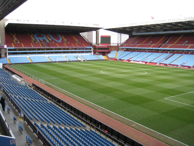 Inside Villa Park Villa Park, home of Aston Villa.